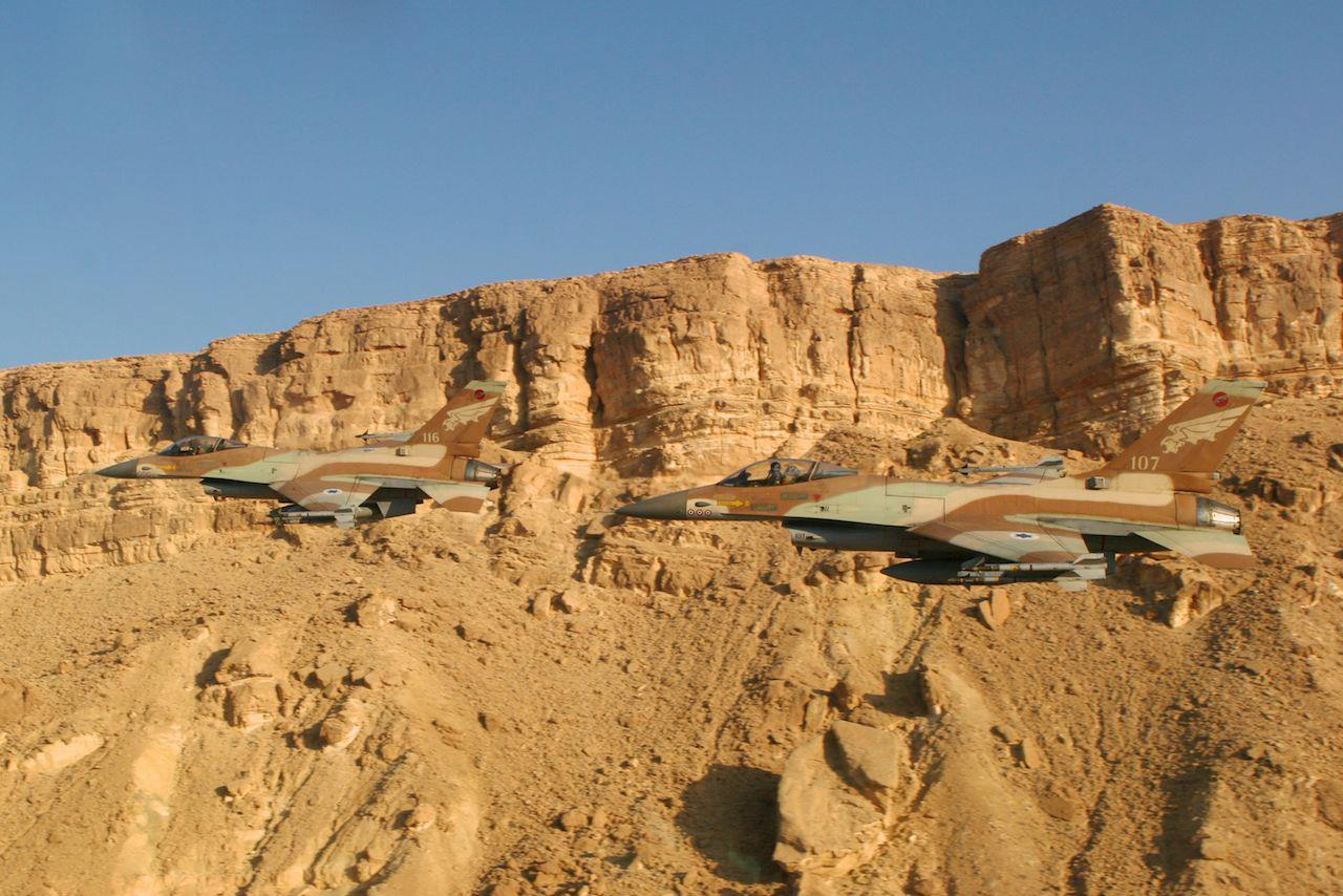 F-16A Netz fighters of the Israeli Air Force, including Netz 107, with the highest record of shot-downs for a F-16.